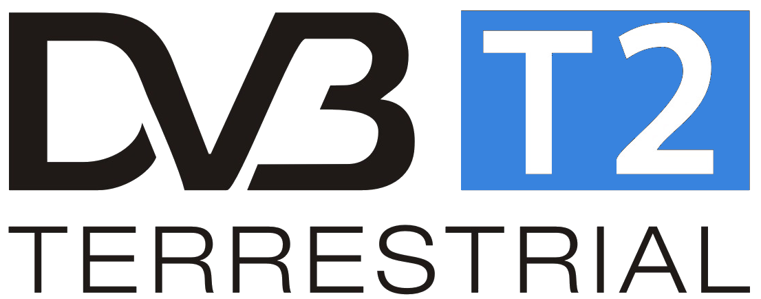 This is the official Logo of the DVB T2 Standard